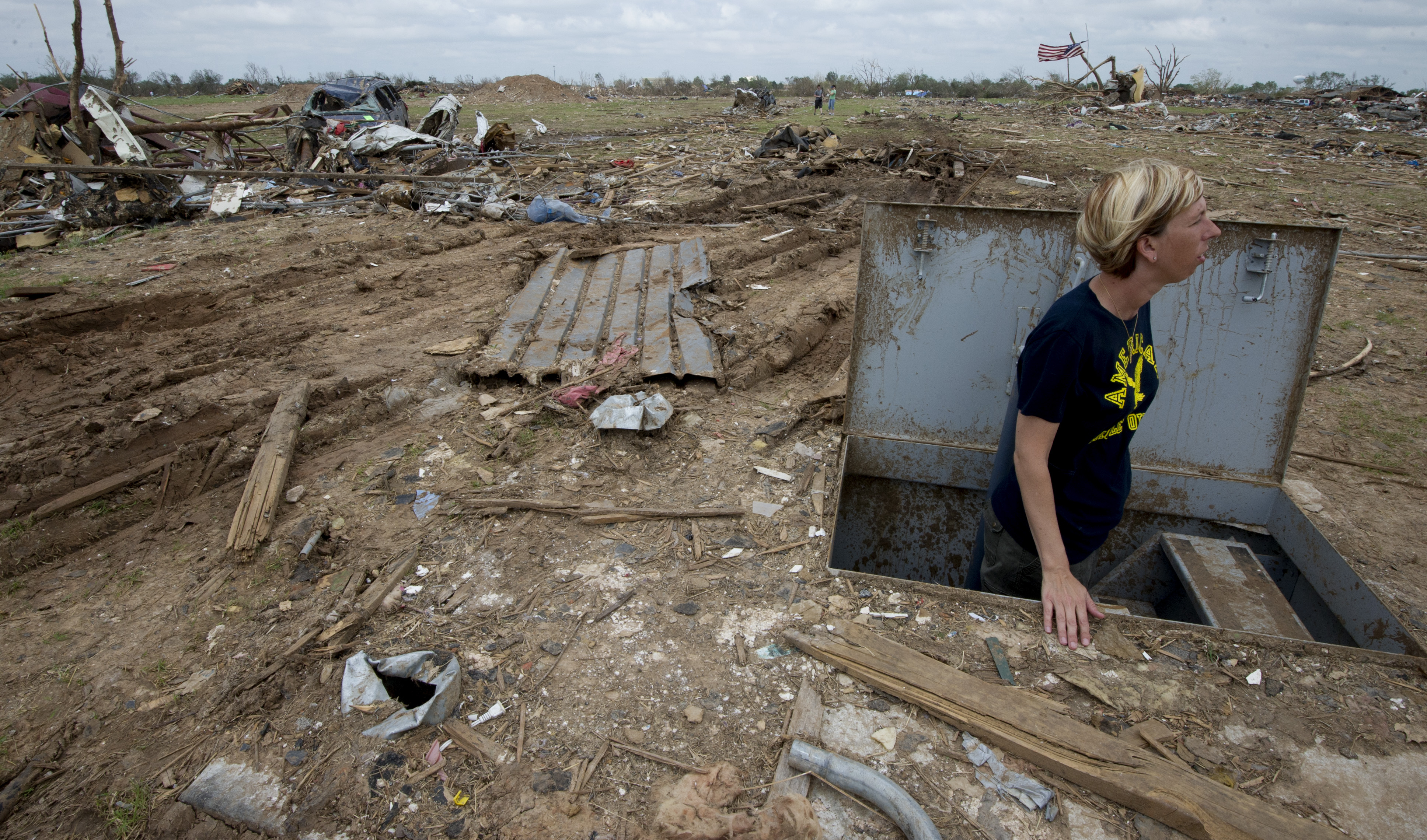 Christie England, an acquisition law paralegal with the 72nd Air Base Wing, based at Tinker Air Force Base, Okla., stands in her storm shelter in front of the remains of her home in Moore, Okla., May 27, 2013, a week after an EF5 tornado with winds exceeding 200 miles per hour tore through the Oklahoma City suburb. U.S. Service members assisted with disaster response efforts in the aftermath of the tornado, which killed 24 people, injured more than 200 and displaced thousands.